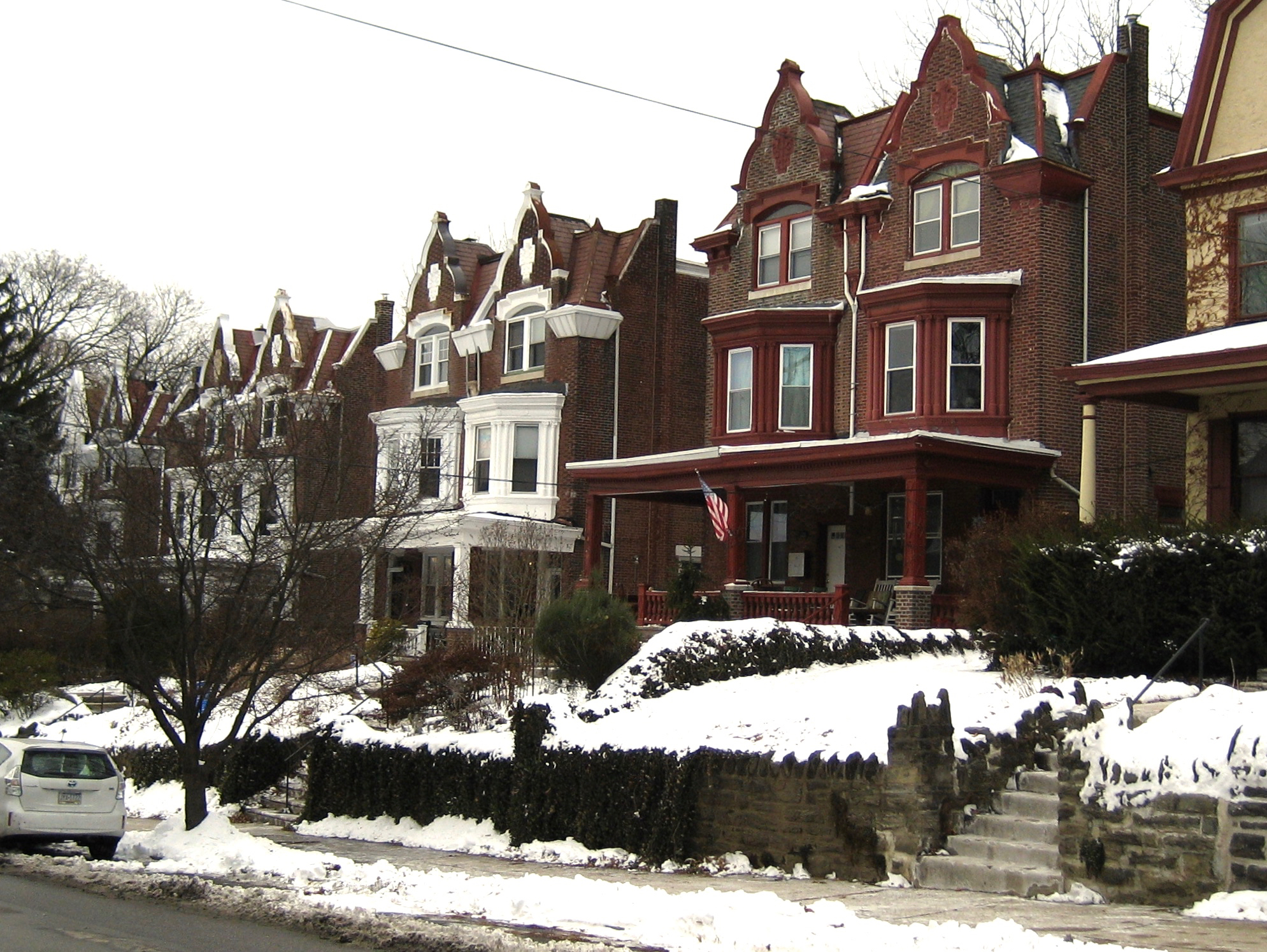 Houses (late 19th-cen.) on Mount Pleasant Avenue, Northwest Philadelphia. January 2018.